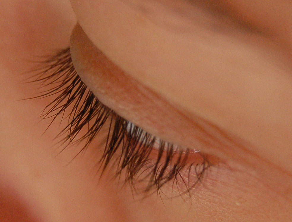 Cils - Eyelashes